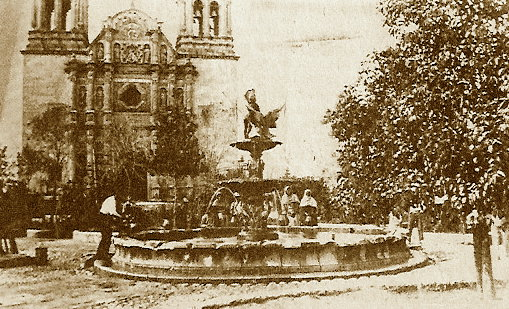 Scanned from original in my files-taken about 1874 of Chihuahua Cathedral with Plaza de la Constitucion(now Plaza de Armas) in front.